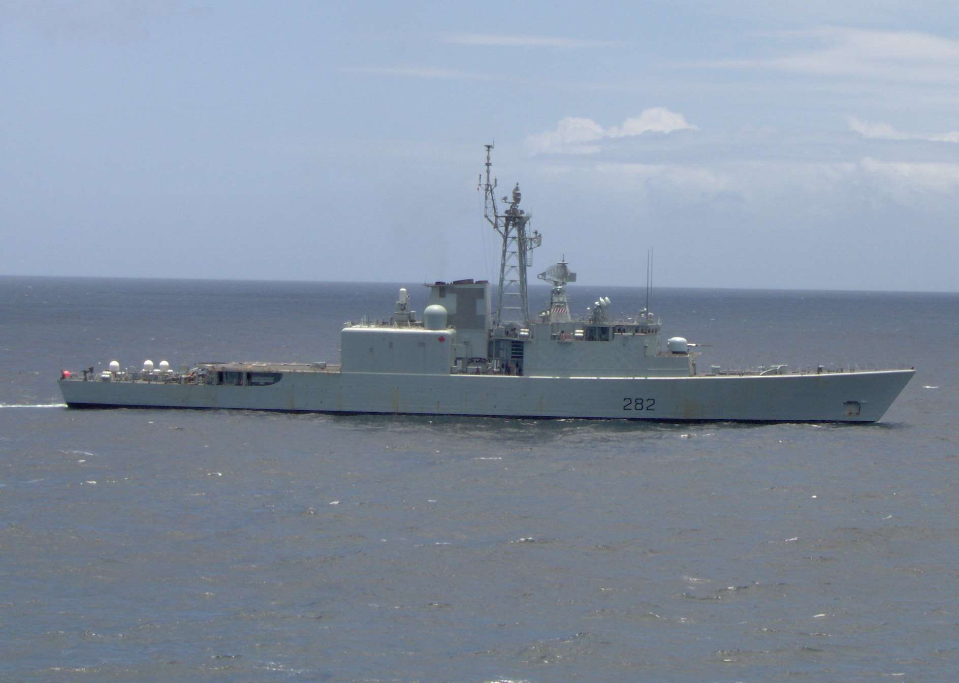 Hmcs Athabaskan